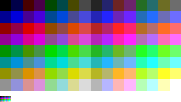 The full SAM Coupé hardware colour palette